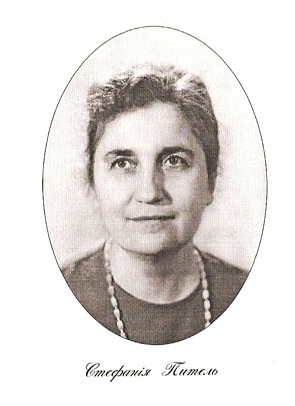 фото автора книги про Гологори - Стефанії Питель